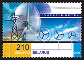 Stamp of Belarus